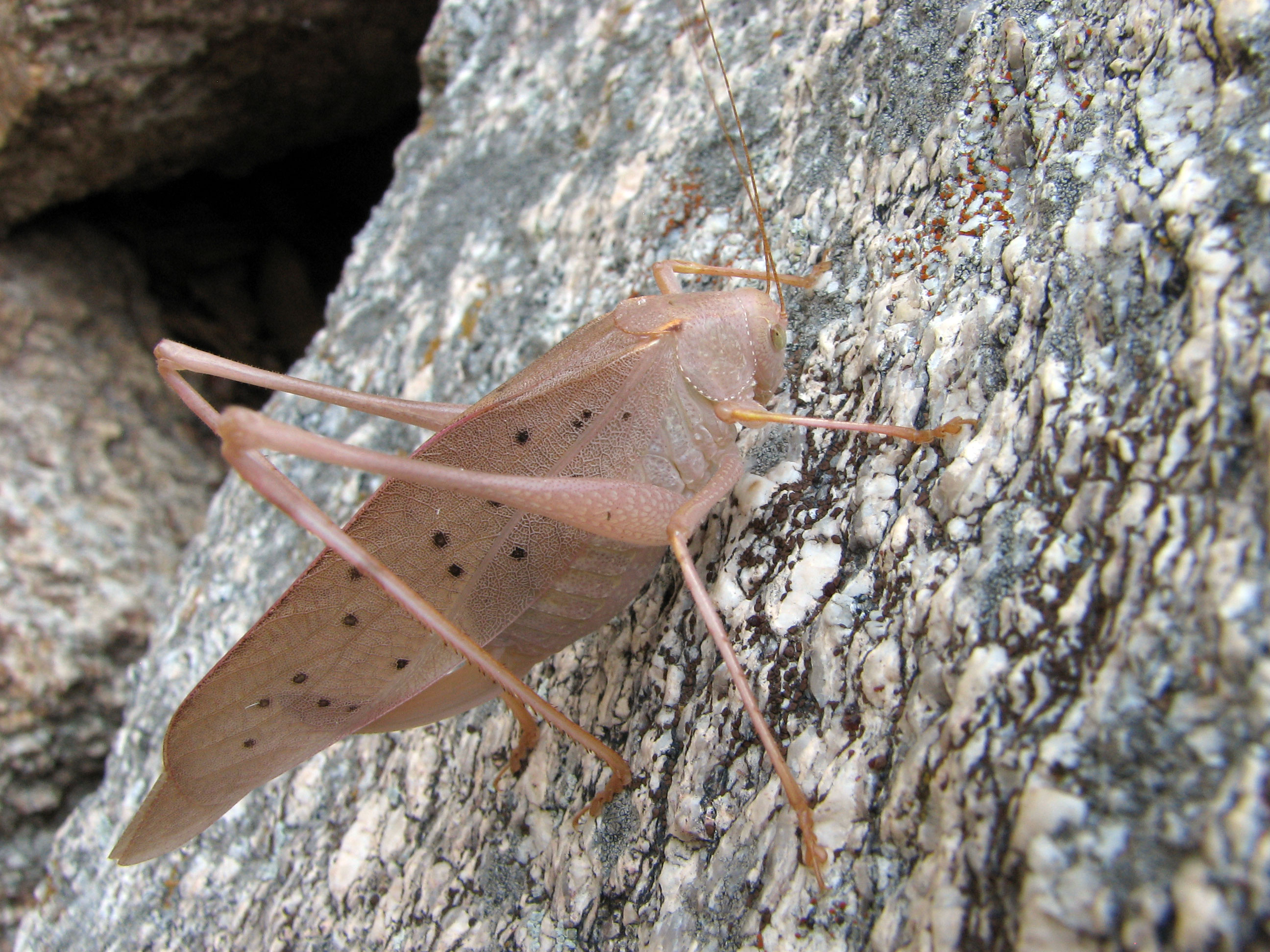 Amblycorypha insolita female. Molino Basin, Santa Catalina Mountains, Arizona, USA. 20 September 2008. Thanks to Sam W. Heads over at iNaturalist for the species id.